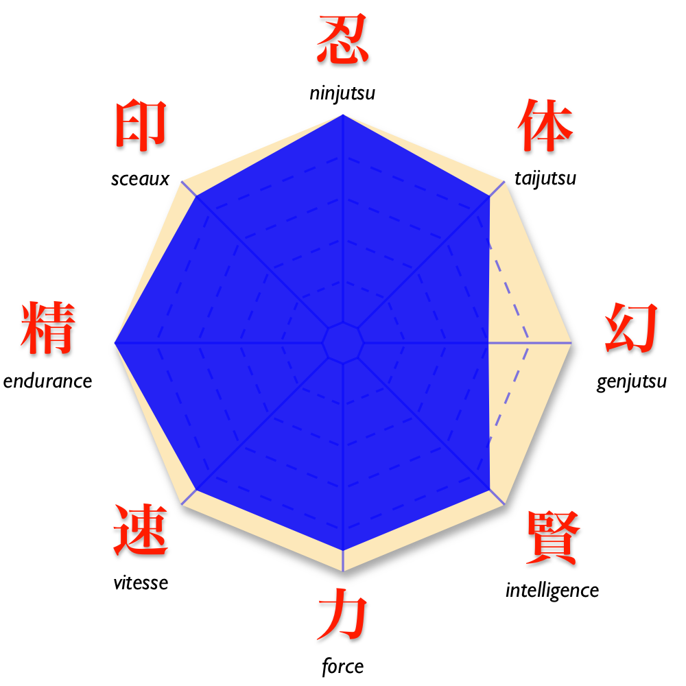 "Naruto" manga - Character "Jiraiya" - Capabilities diagram from Official Databooks data